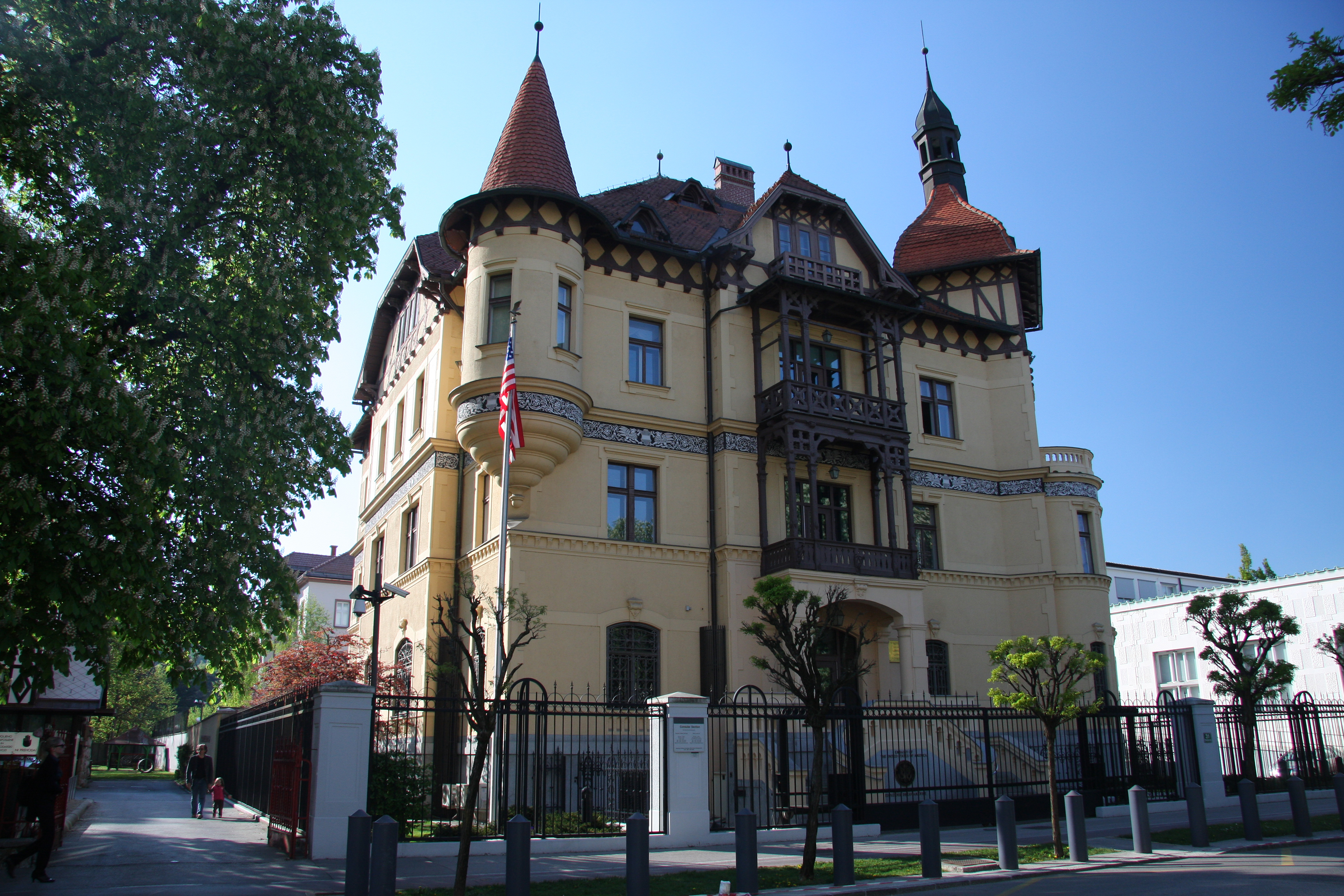 Embassy of the United states of America in Ljubljana, Slovenia.